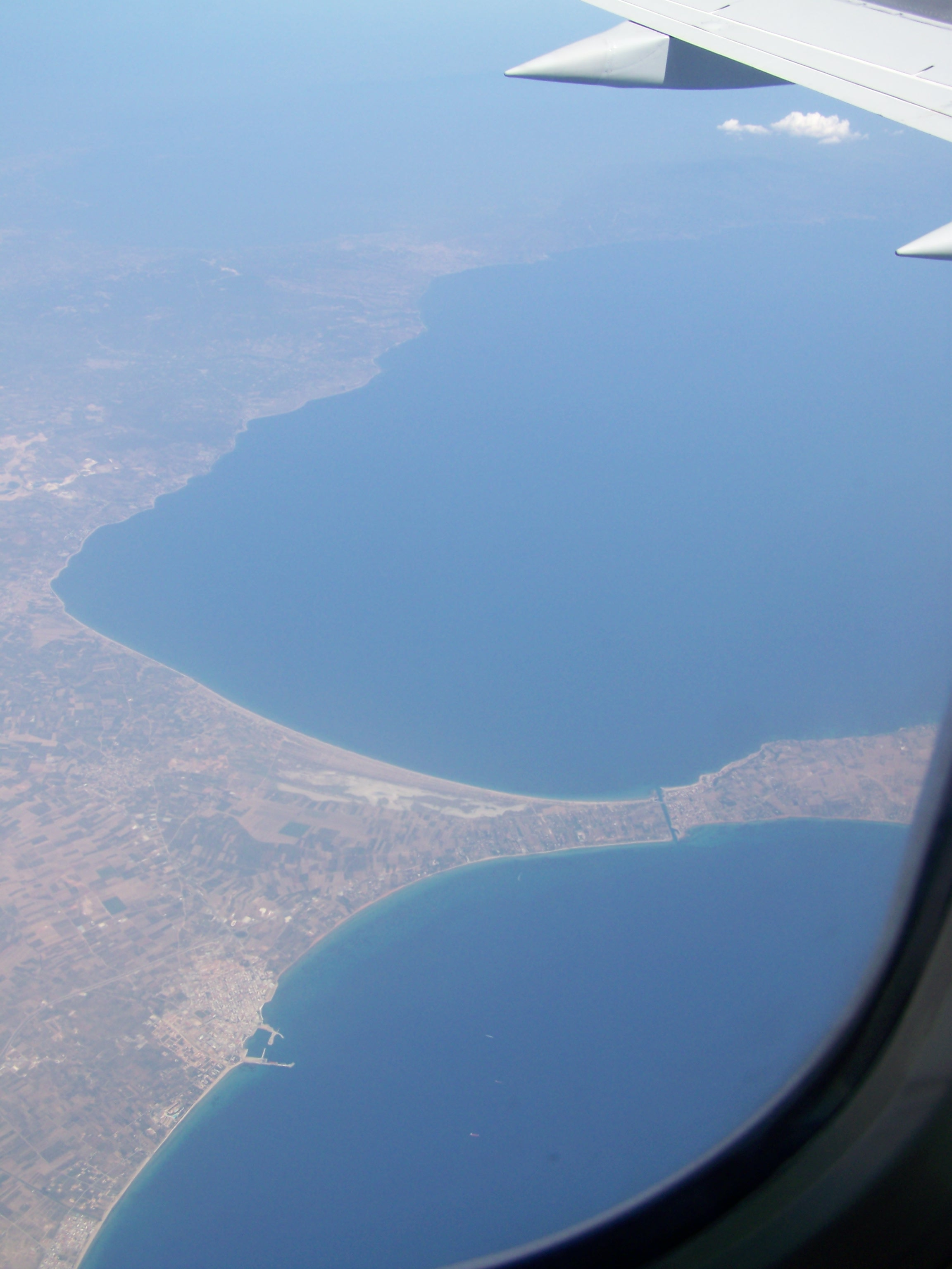 The Isthmus connecting Kassandra Peninsula to Greece including the Potidea Canal viewed from a plane. The plane was SX-BKH (Boeing 737-400) flying from Berlin-Tegel to Athens with Olympic Airlines. On the lower left, the city of Nea Moudania is visible.